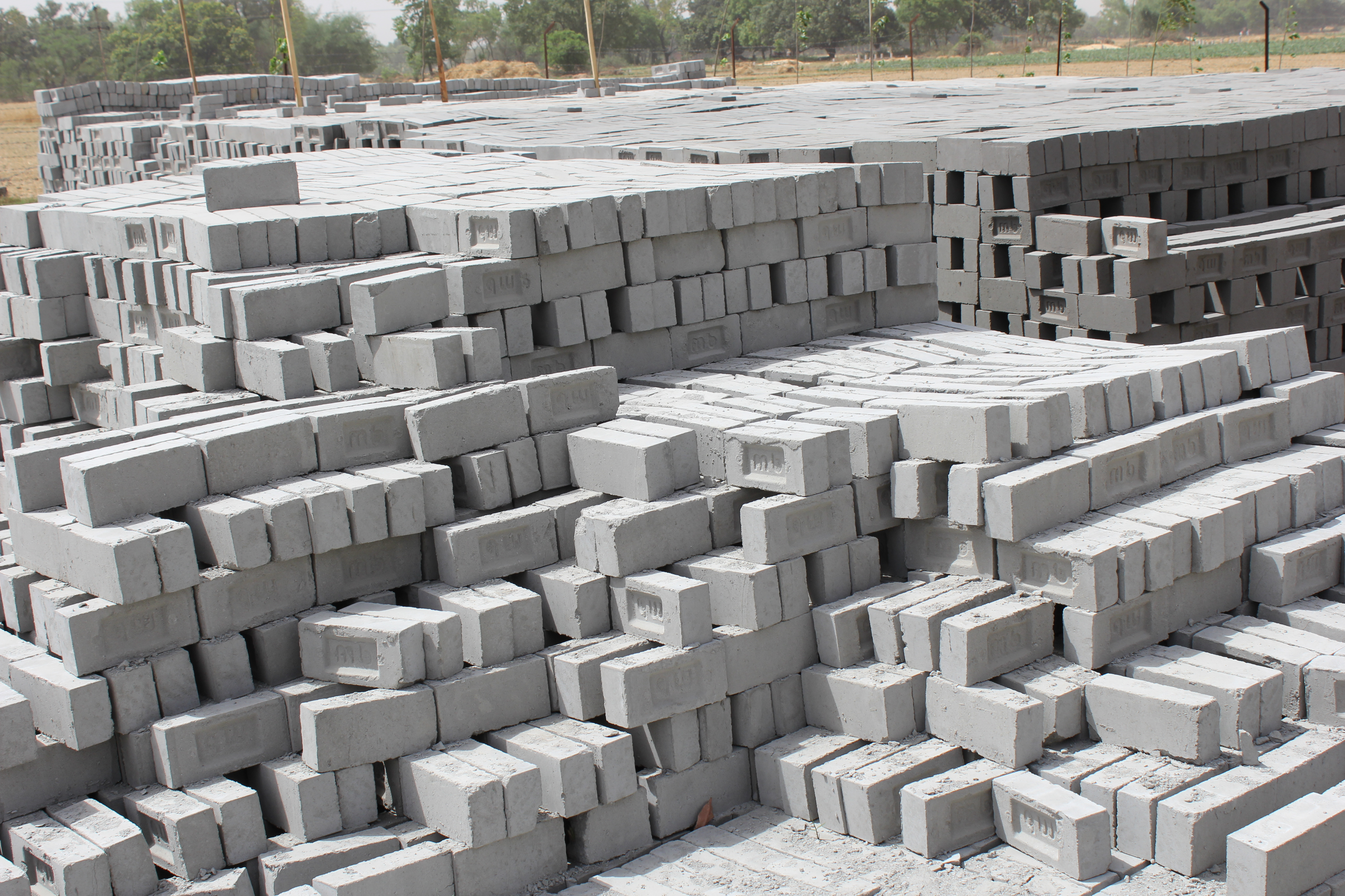 Fly Ash Bricks in stock.